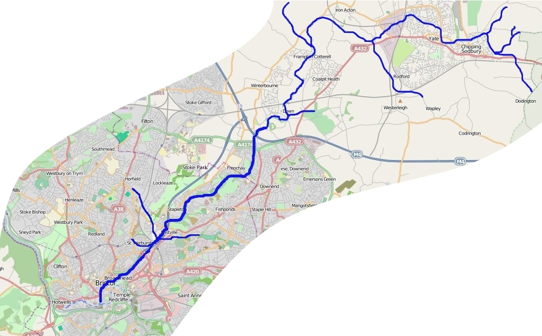 Diagrammatic map of the course of the River Frome and tributaries in Bristol England